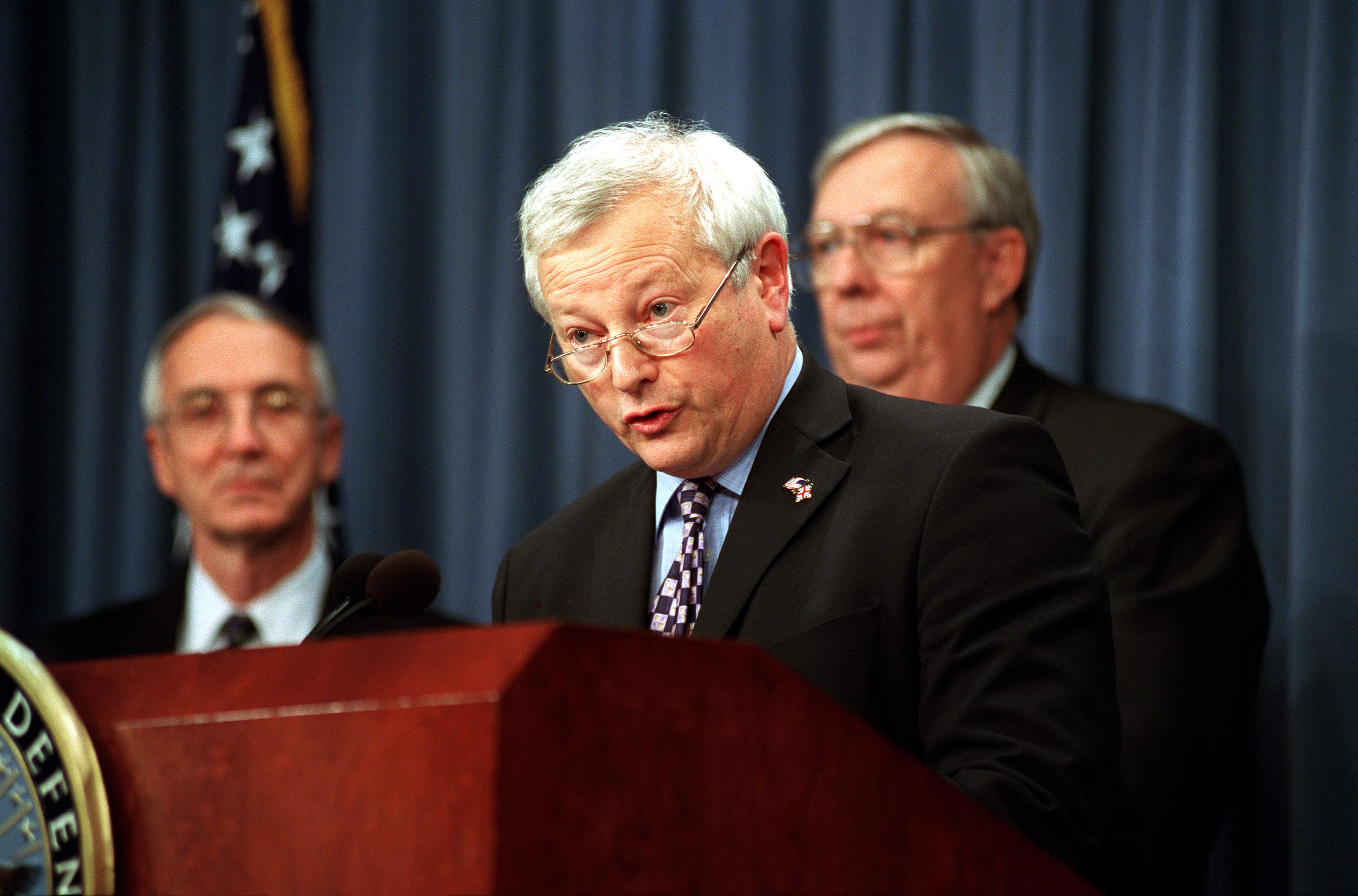 United Kingdom's Minister of Defence for Procurement Lord Willy Bach comments on the selection of the Lockheed Martin team to produce the Joint Strike Fighter during a Pentagon press conference on Oct. 26, 2001. The Joint Strike Fighter is a multi-service, multi-nation, family of warplanes which will be produced in three versions to fit the requirements of the U.S. Air Force, Navy, and Marine Corps as well as the British Royal Air Force and Navy. The program is the largest acquisition program in the history of the Department of Defense.